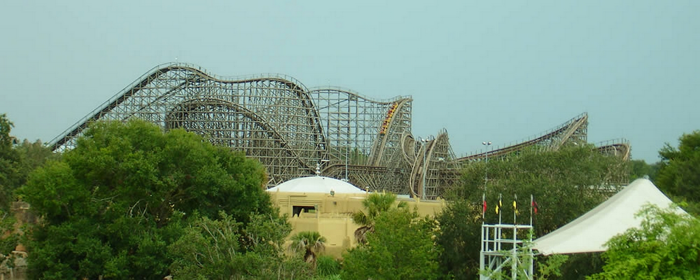 A view of Gwazi, roller coaster in Busch Gardens Africa, from the Skyride (Lion train seen on first drop).